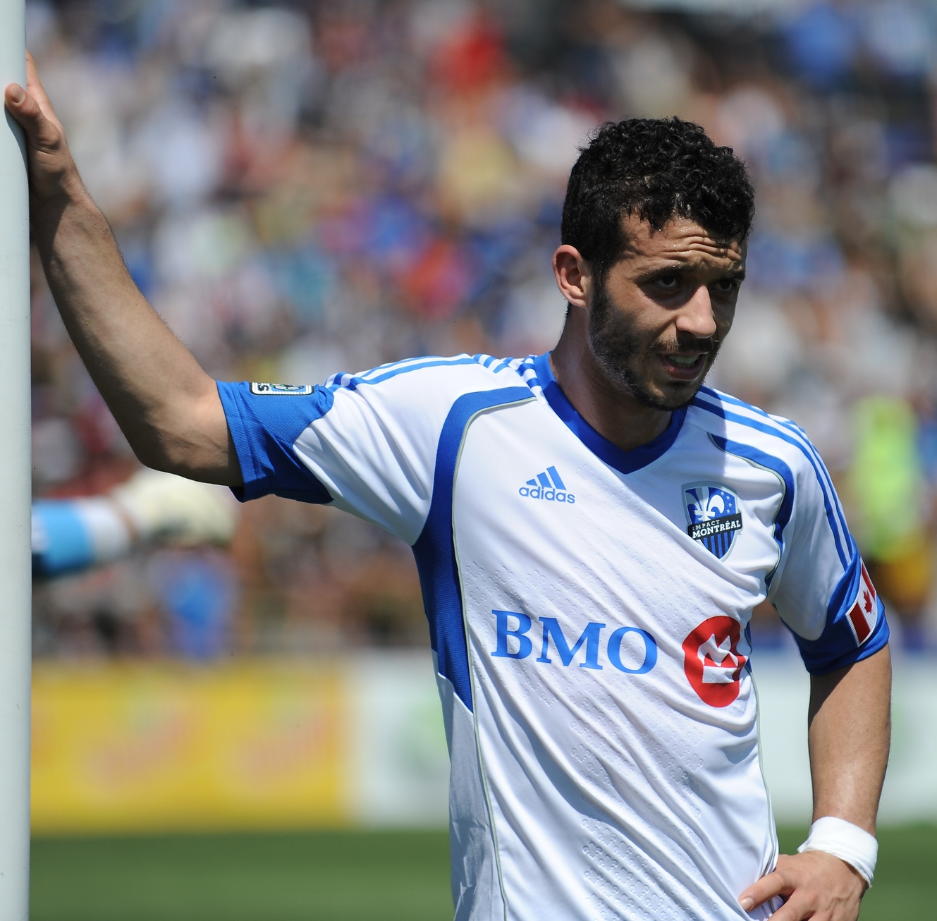 Felipe Martins of the Montreal Impact in a Major League Soccer game against the San Jose Earthquakes on 4 May 2013 at Buck Shaw Stadium in Santa Clara, California.